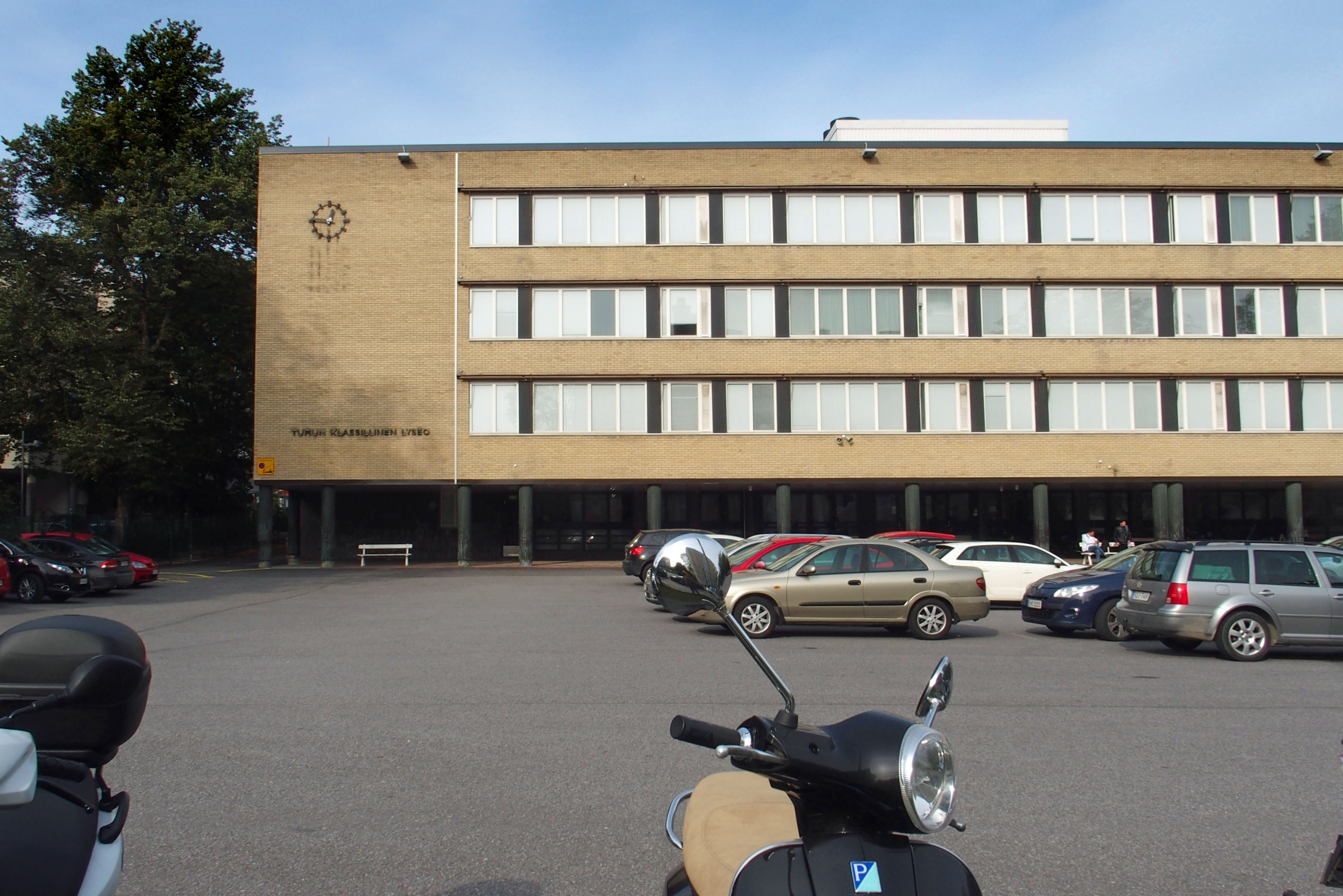 Turun klassillinen lukio on Linnankatu, Turku, Finland